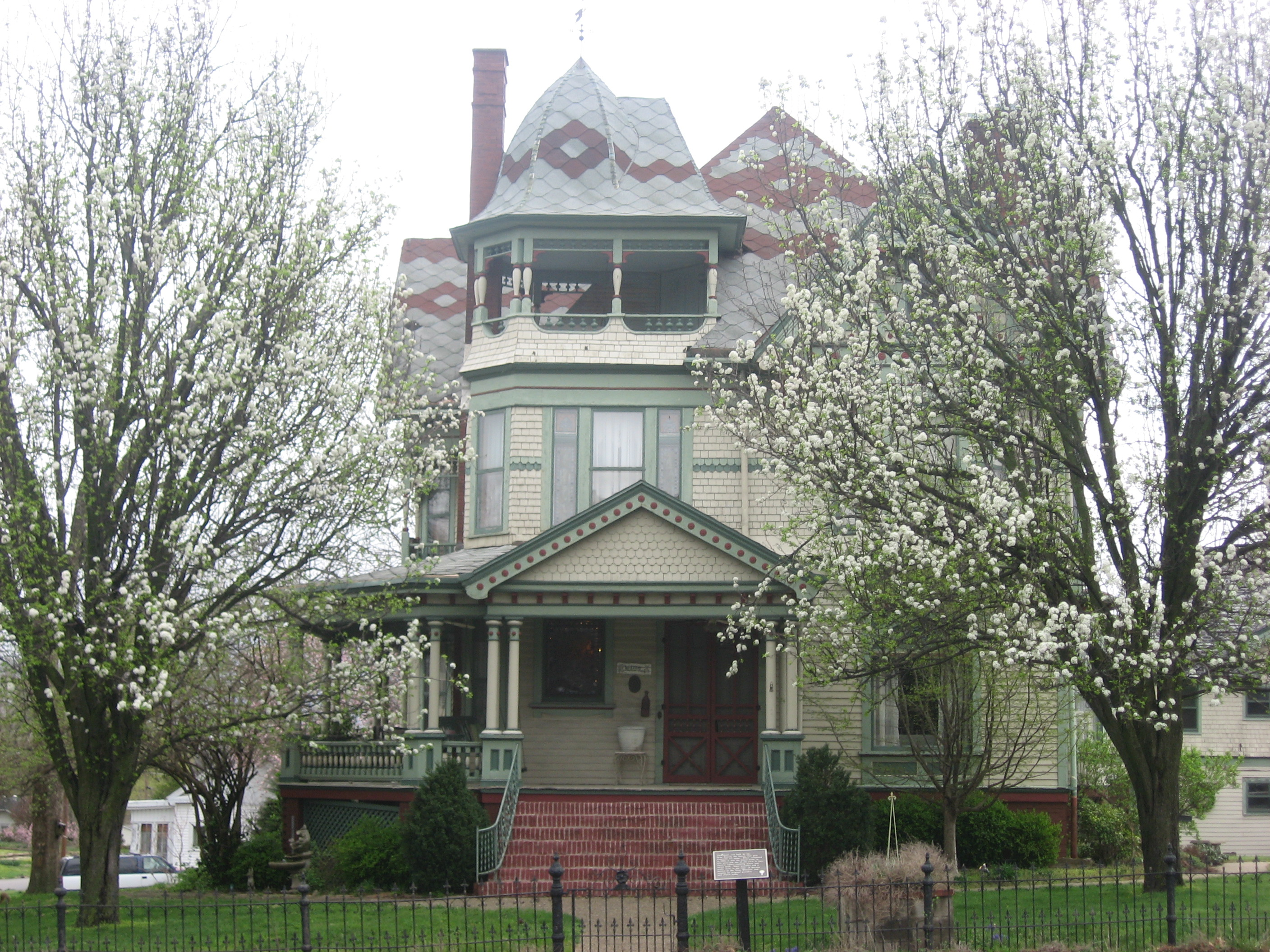 Front of the William W. Gray House, located at 119 N. Court Street (Illinois Route 1) in Grayville, Illinois, United States. Built in 1895, it is listed on the National Register of Historic Places.